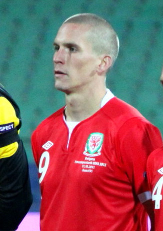 Wales national football team in 2011